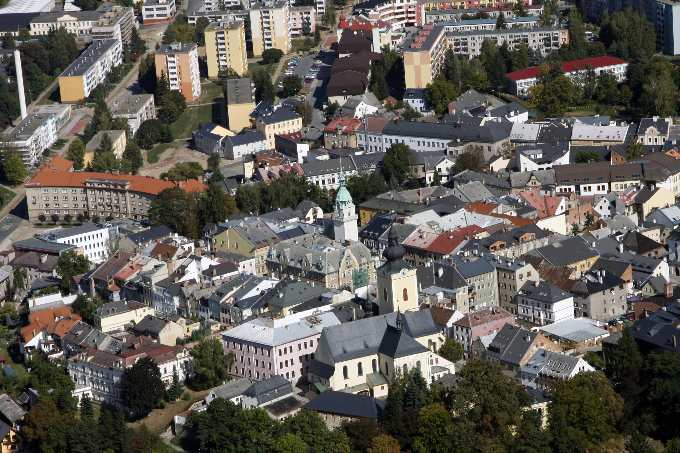 air picture